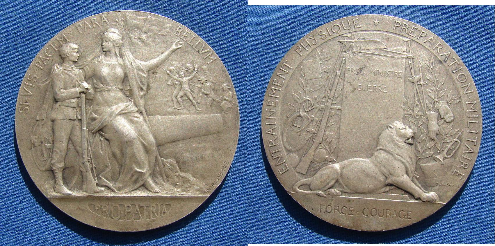 On cannon sitting Marianne holds arm around young soldier, surrounding : "SI VIS PACEM PARA BELLVM PRO PATRIA" / Lion r. in front of monument with inscription in 2 lines : "PRIX du MINISTRE da la GUERRE.". Surrounding : "ENTRAINEMENT PHYSIQUE PREPARATION MILITAIRE FORCE COURAGE". Forrer VII, p. 389. Undated Silver medallion. D = 50 mm. 60.7 g Ag. Medallist :P. (Paul Victor) Grandhomme 1851 Paris - 1944 Saint-Briac-sur-Mer, Ille-et-Vilaine, France Condition: Toned EXTREMELY FINE